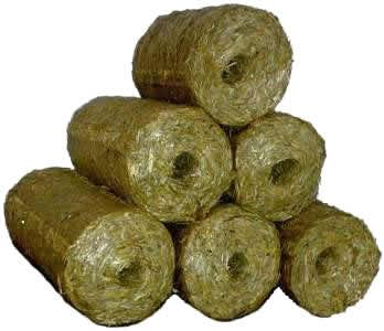 Biomass briquettes from the Company AgroBrik / Czech republic - straw briquettes and hay briquettes. Can be used to heat boilers in home.